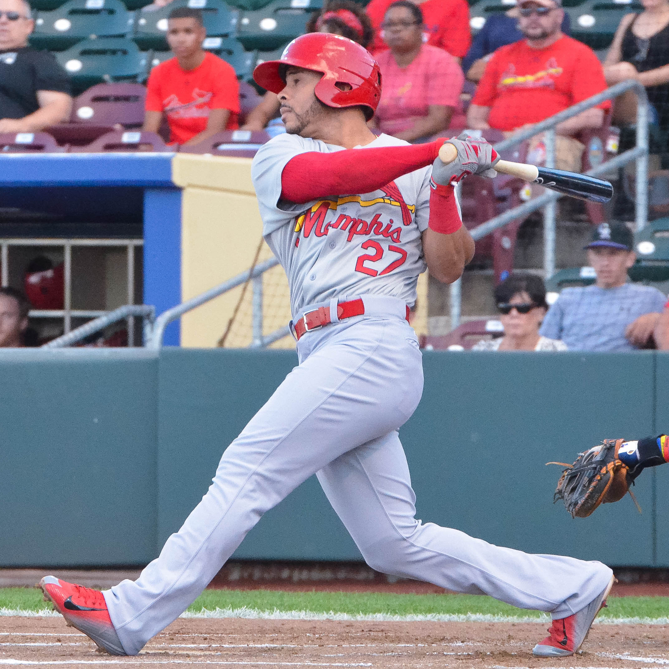 Tommy Pham